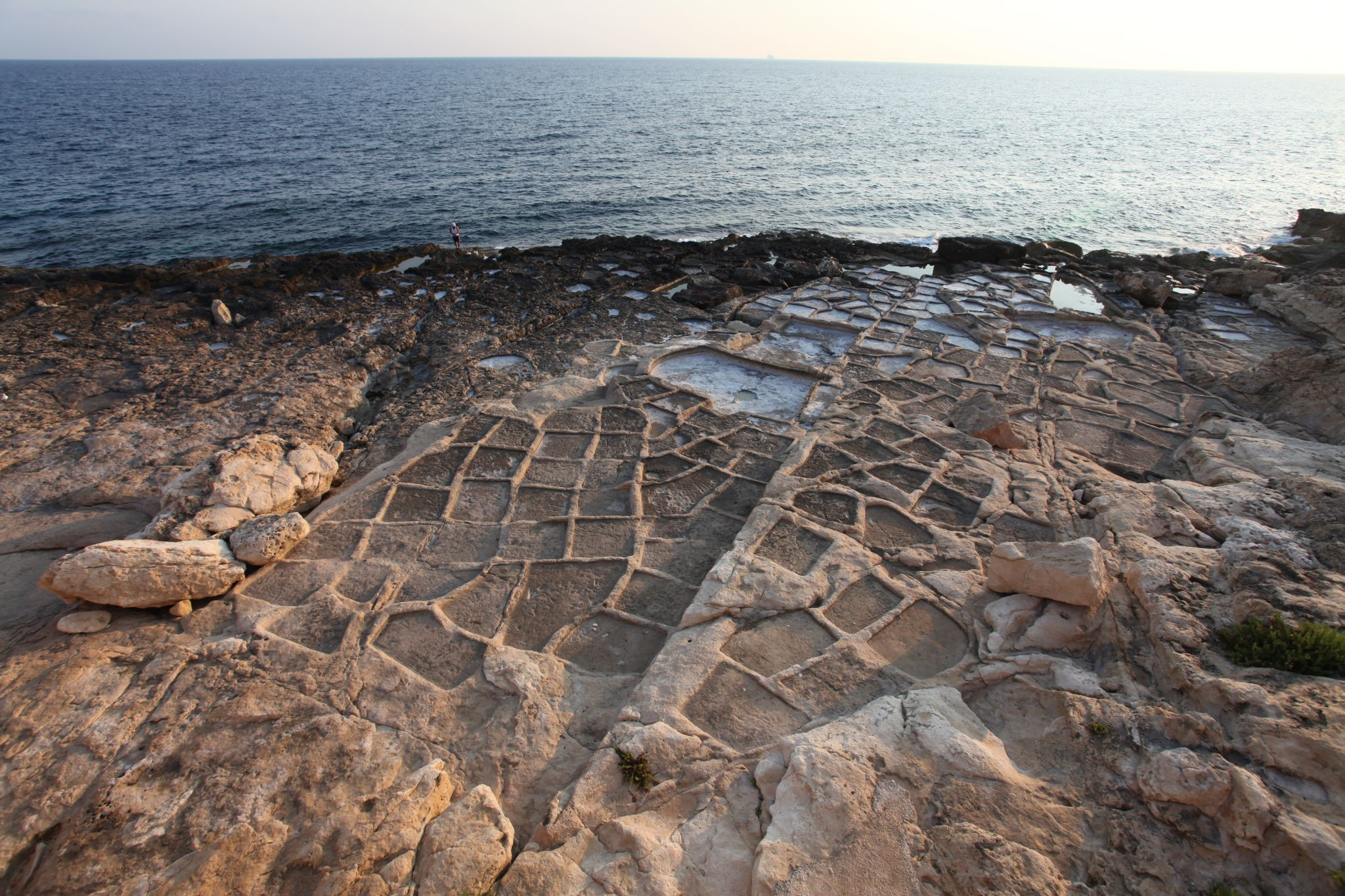 Salt pans at Xgħajra